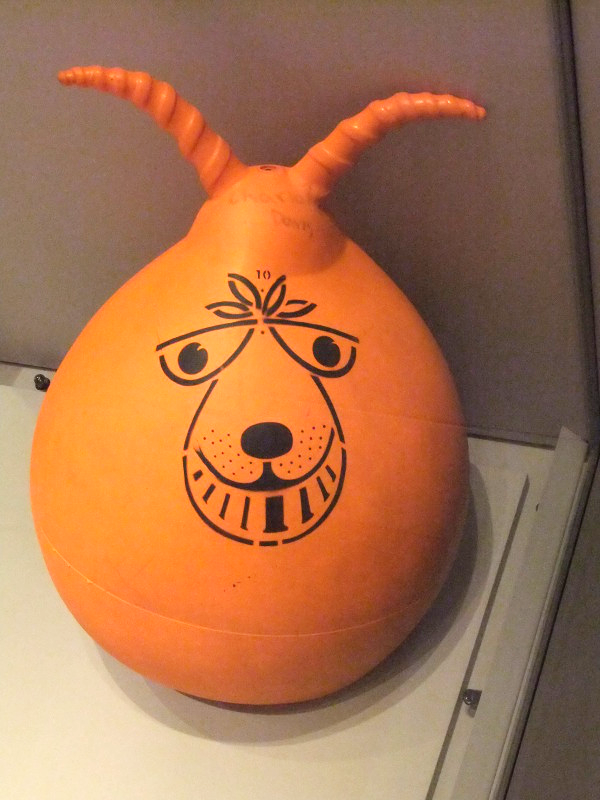 Space hopper at the Walker Art Gallery, Liverpool, England.